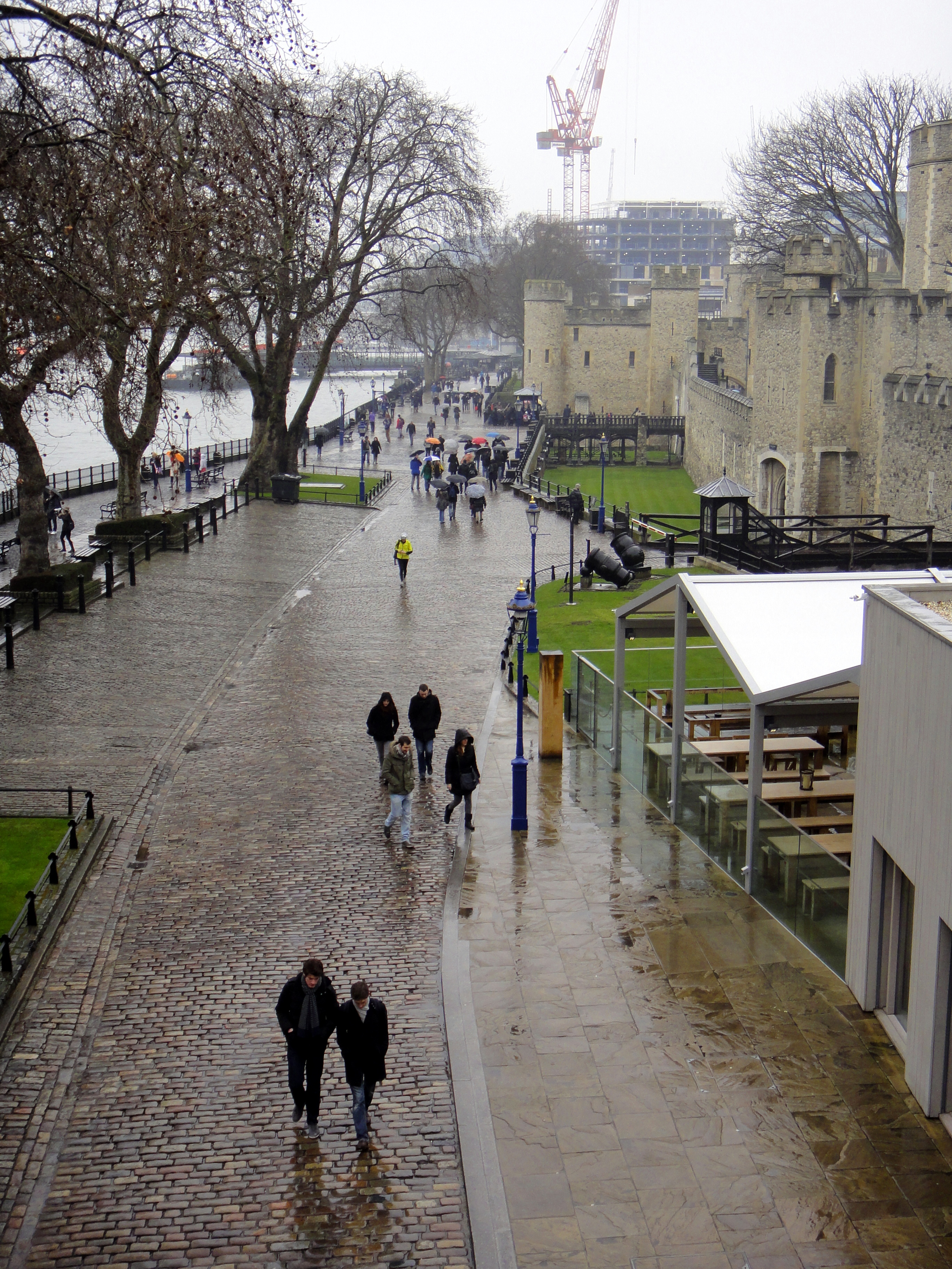 Tower Wharf, Tower of London, seen from the south